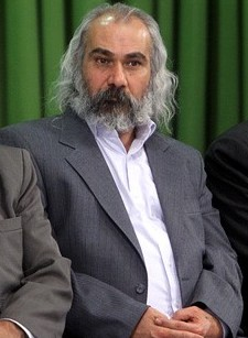 Yousofali Mirshakkak at the collection of Poets with Ayatollah ali Khamenei